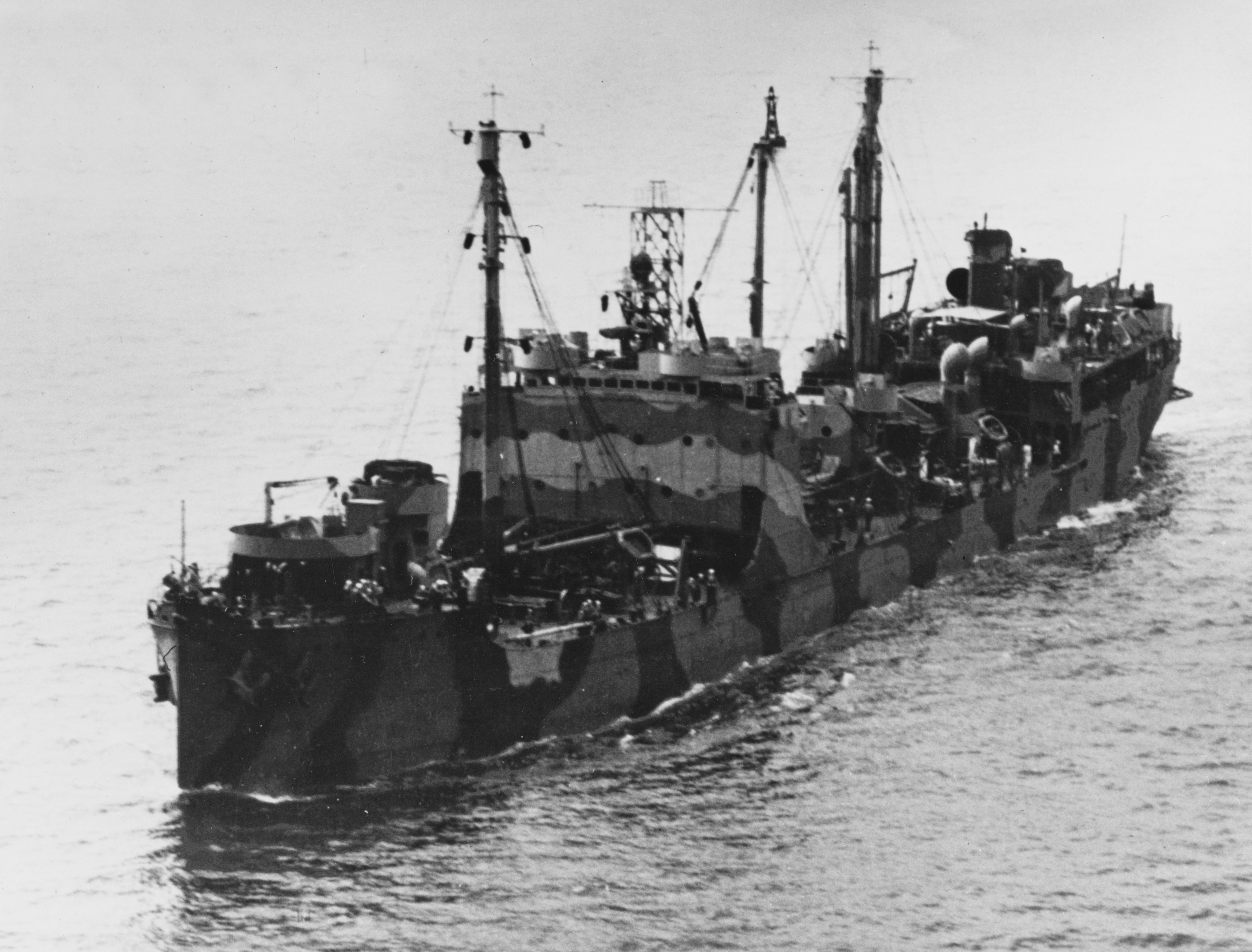 The U.S. Navy fleet oiler USS Maumee (AO-2) underway at sea, circa in 1942. She is painted in Camouflage Measure 12 (Modified).